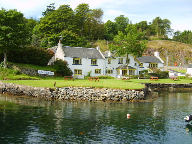 Port Askaig Hotel The Port Askaig Hotel, as viewed from the ferry arriving from Jura.